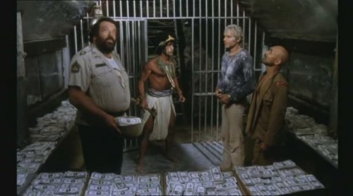 An Italian adventure-comedy film "A Friend Is a Treasure" (1981).